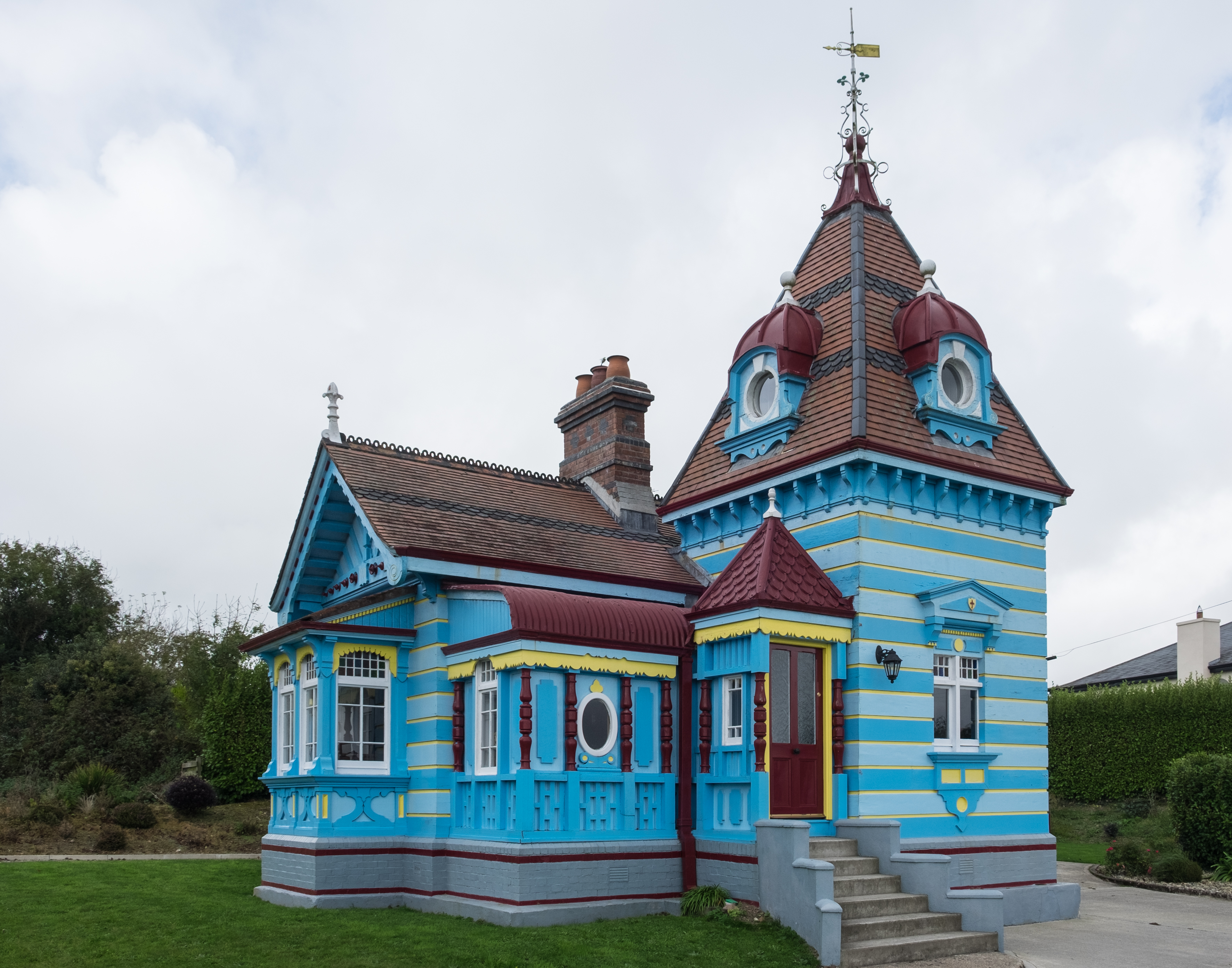 Rathaspeck Manor gate lodge, Rathaspeck, Co. Wexford, Ireland. Built between 1895 and 1905 this building is registered on Ireland's National Inventory of Architectural Heritage (Reg. No. 15704222).